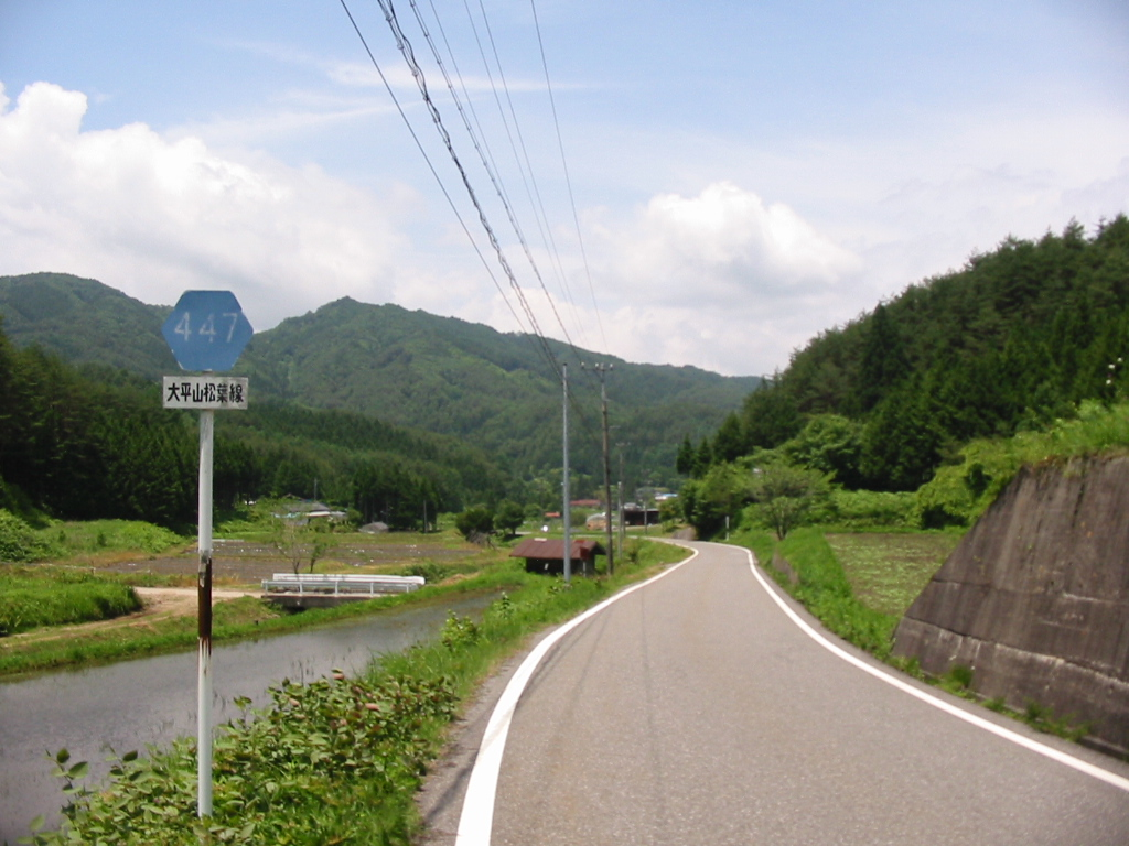 The Nagano Prefectural Road Route 447 in Urugi Village